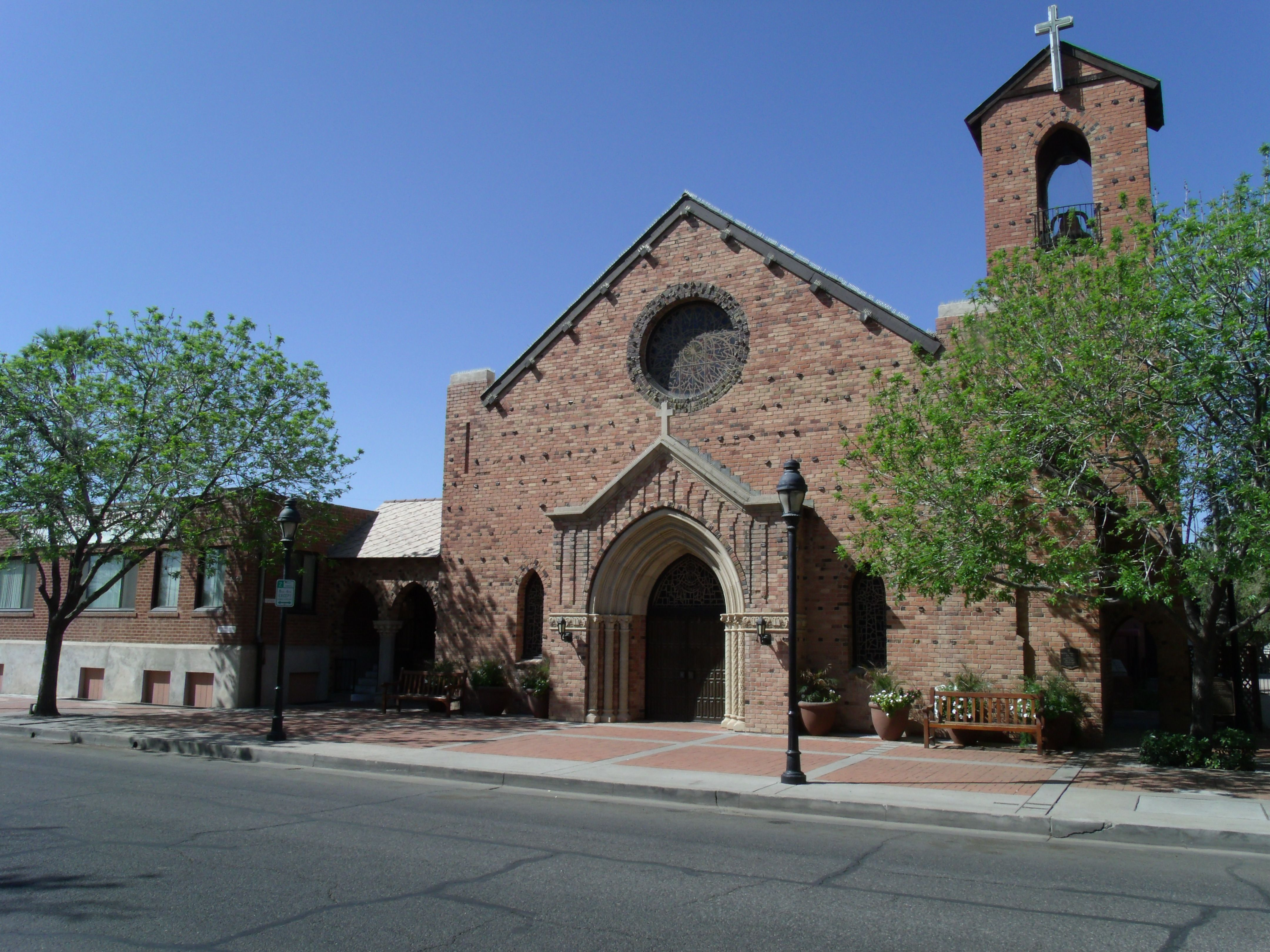 Historic (NRHP) First Methodist Episcopal Church of Glendale Sanctuary, built in 1926 in Glendale, Arizona .